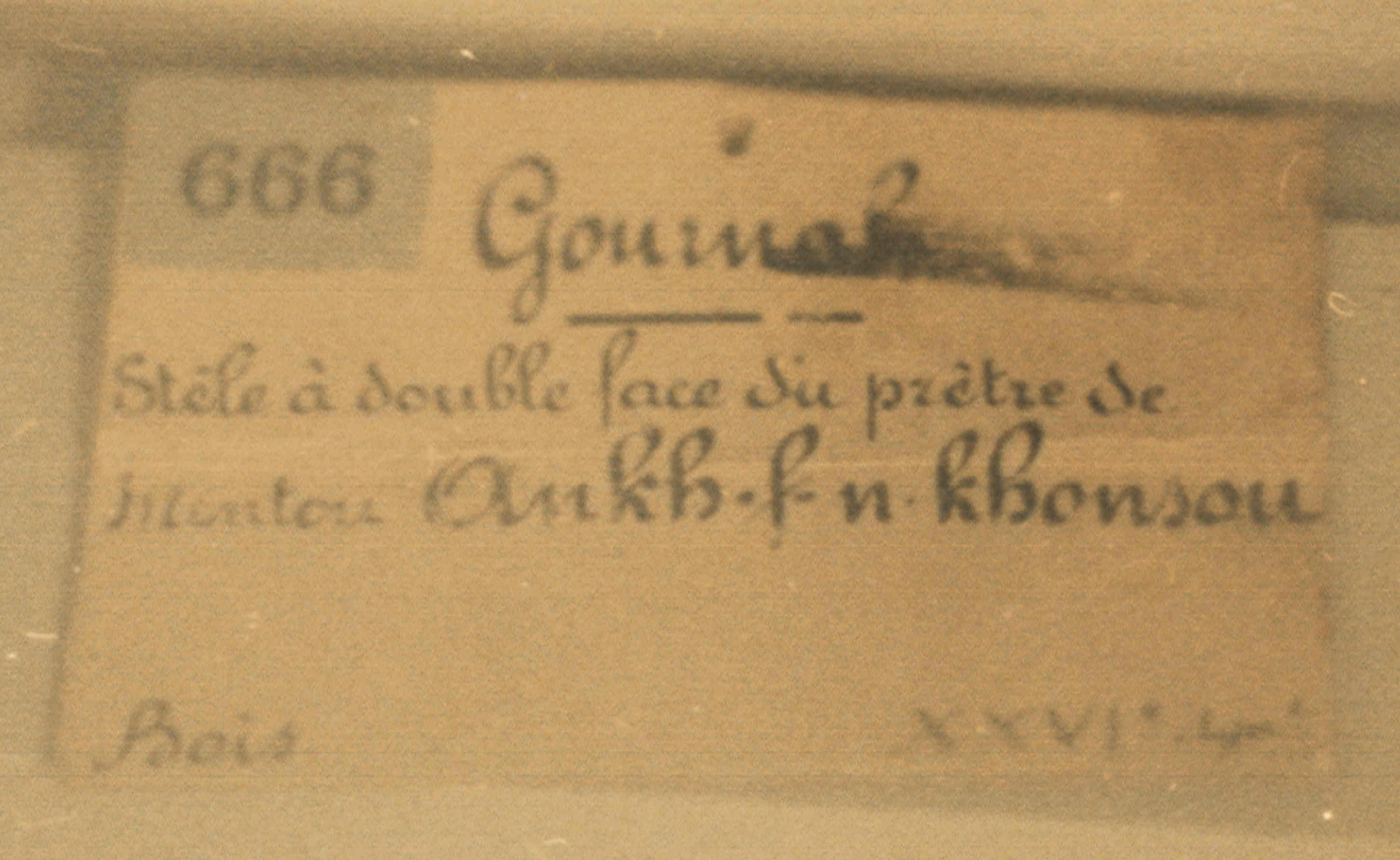 666-Stele of revealing- tag from Cairo Museum, Boulaq, Cairo, Egypt. This photo was taken circa 1998 with a 35mm color camera and converted to digital with a negative scanner.